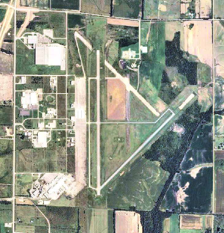 USGS orthophoto of Coffeyville Municipal Airport, formerly Coffeyville Army Airfield, in Kansas, United States